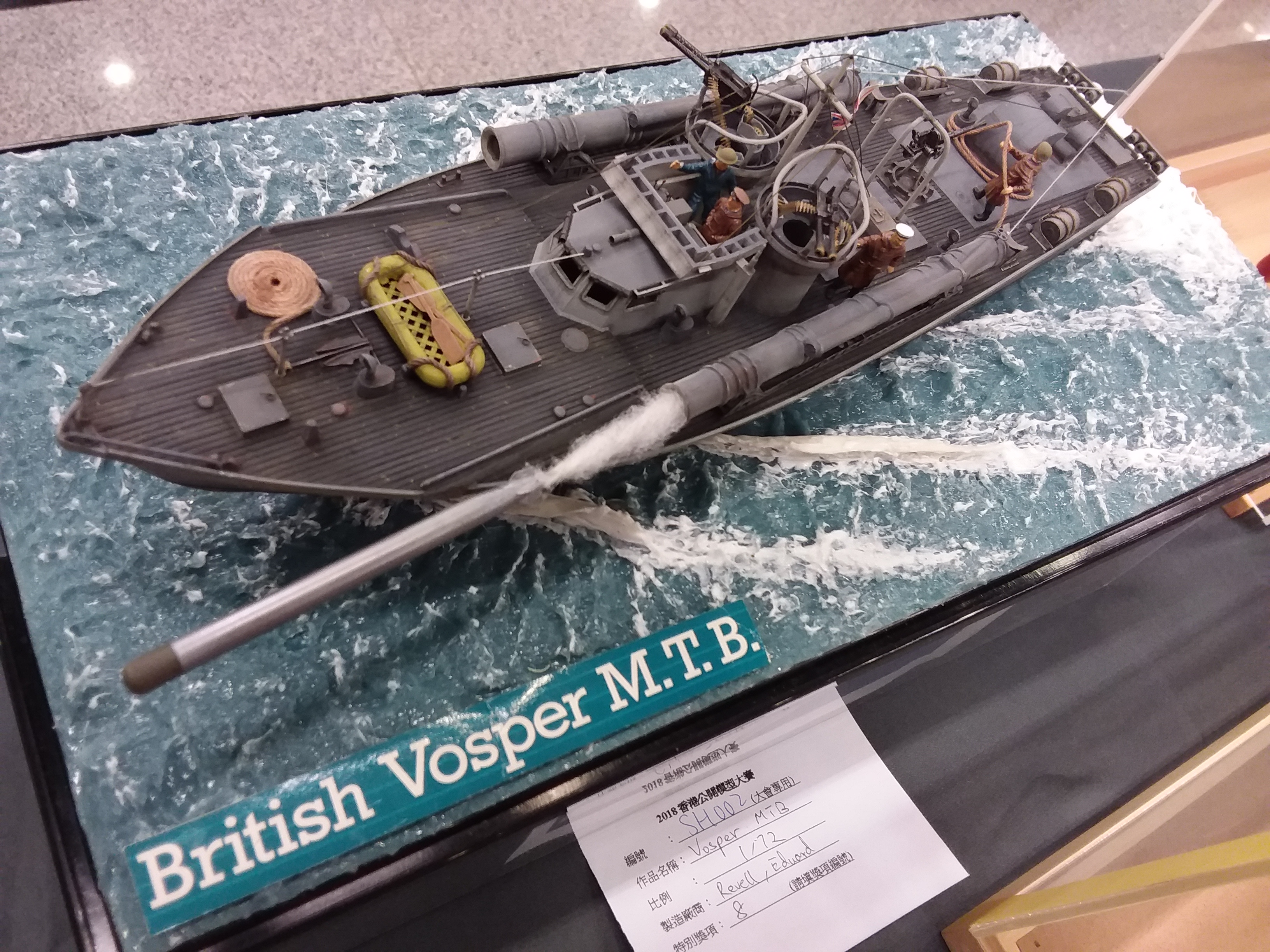 HK 上環文娛中心 SWCC expo hall 香港公開模型大賽 Hong Kong Scale Modelling Open Competition in November 2018 Category:Hong Kong Society of Scale Modelling in 2018]\ ]